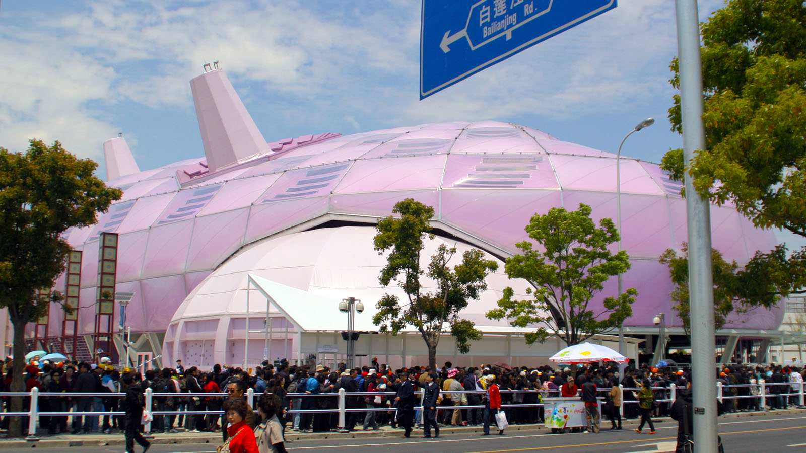 Japan Pavilion of Expo 2010